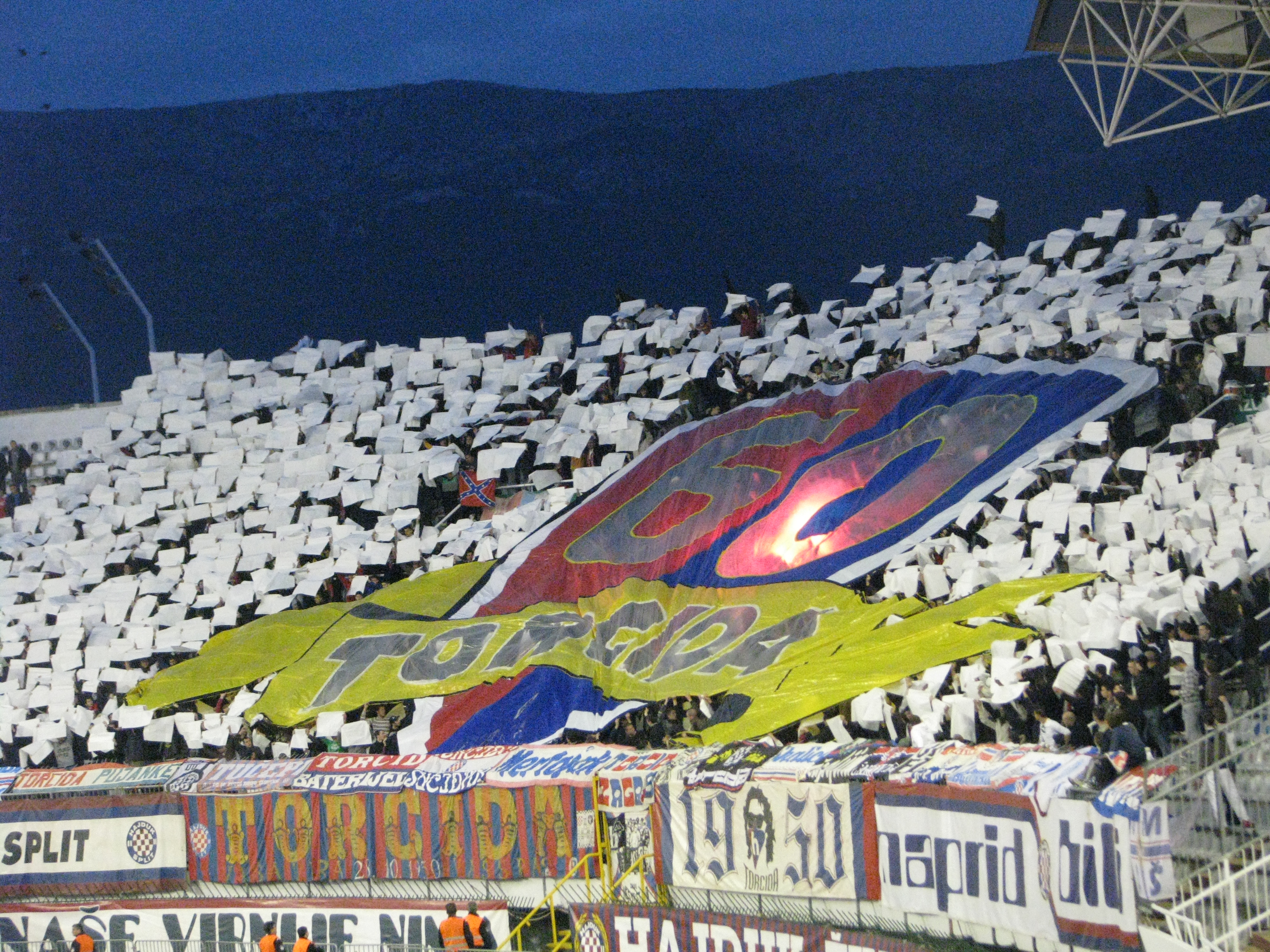 Torcida birthday for 60 years since establishment